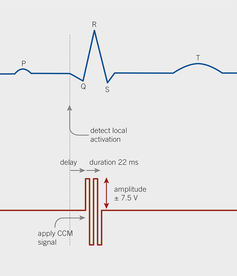 Illustration of CCM™ signal delivery